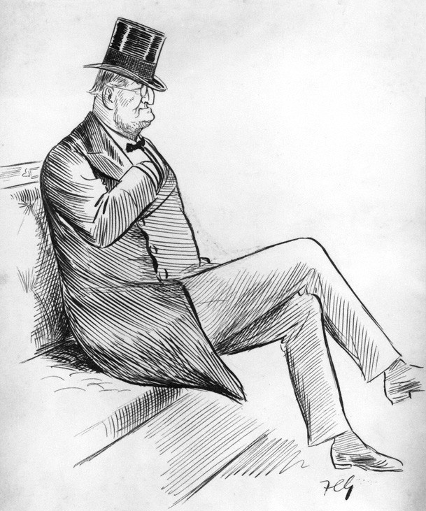 Portrait of William Vernon Harcourt